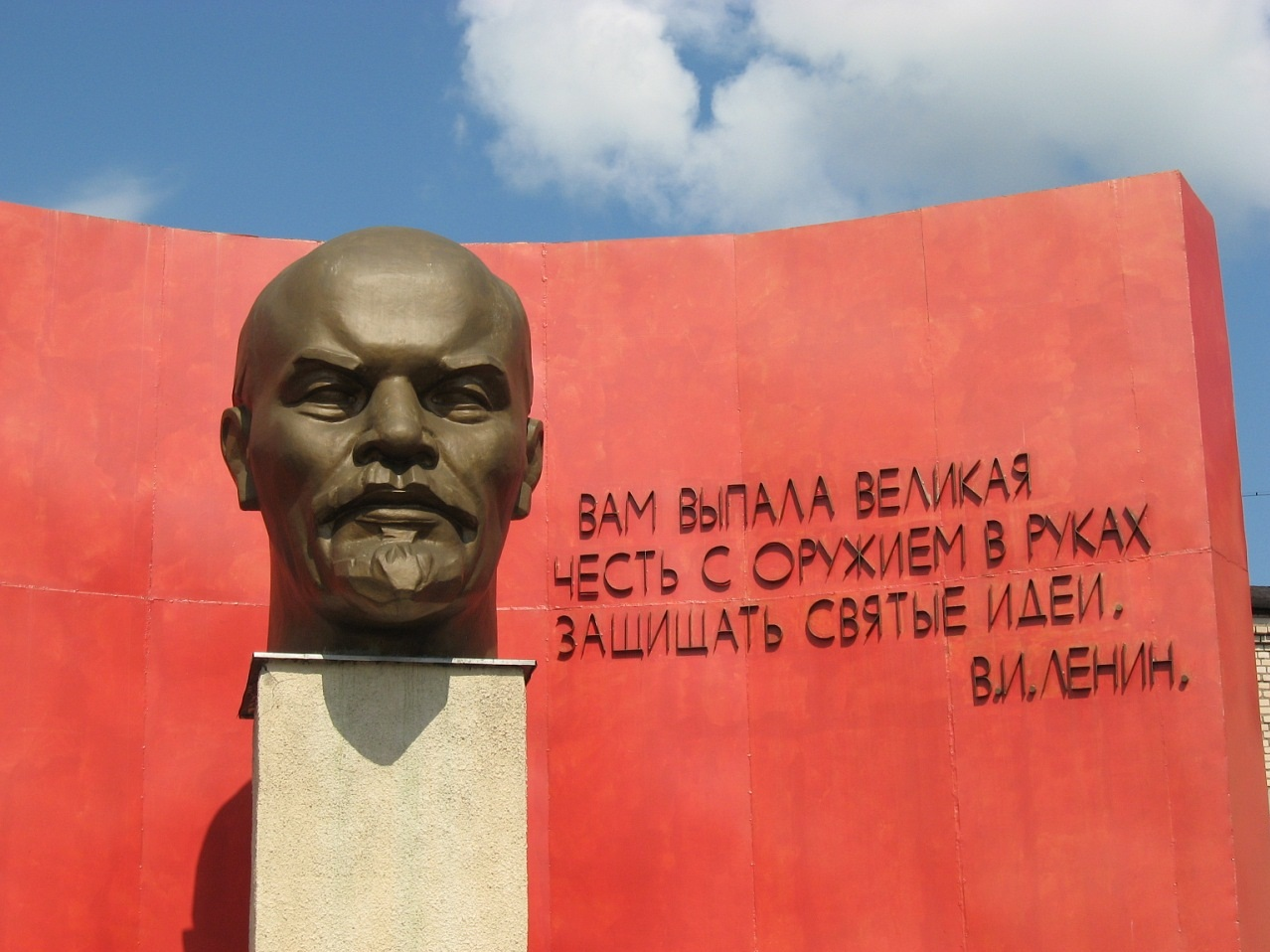 Bust to Vladimir Lenin in Minsk. Inscription: You fulfilled the great honor with arms in hand, to defend the saints ideas. VI. Lenin